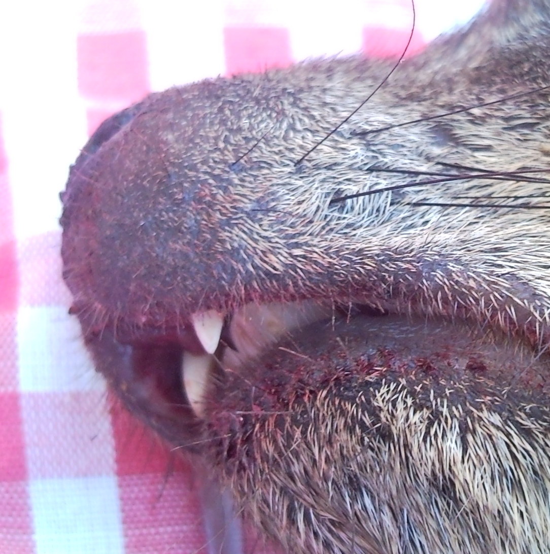 Close up of the incisors of a Rock hyrax Procavia capensis